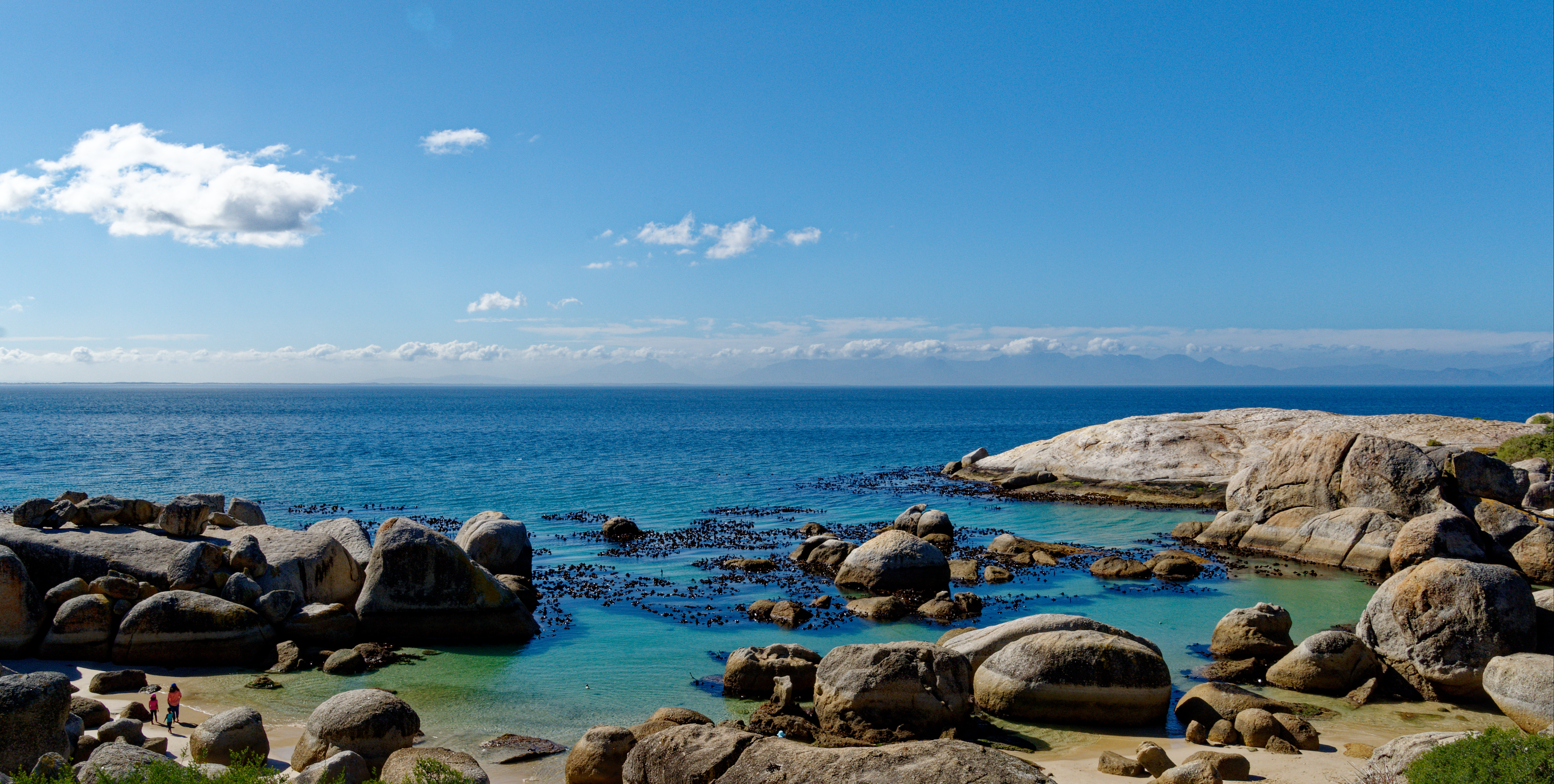 Boulders Beach is a sheltered beach in South Africa